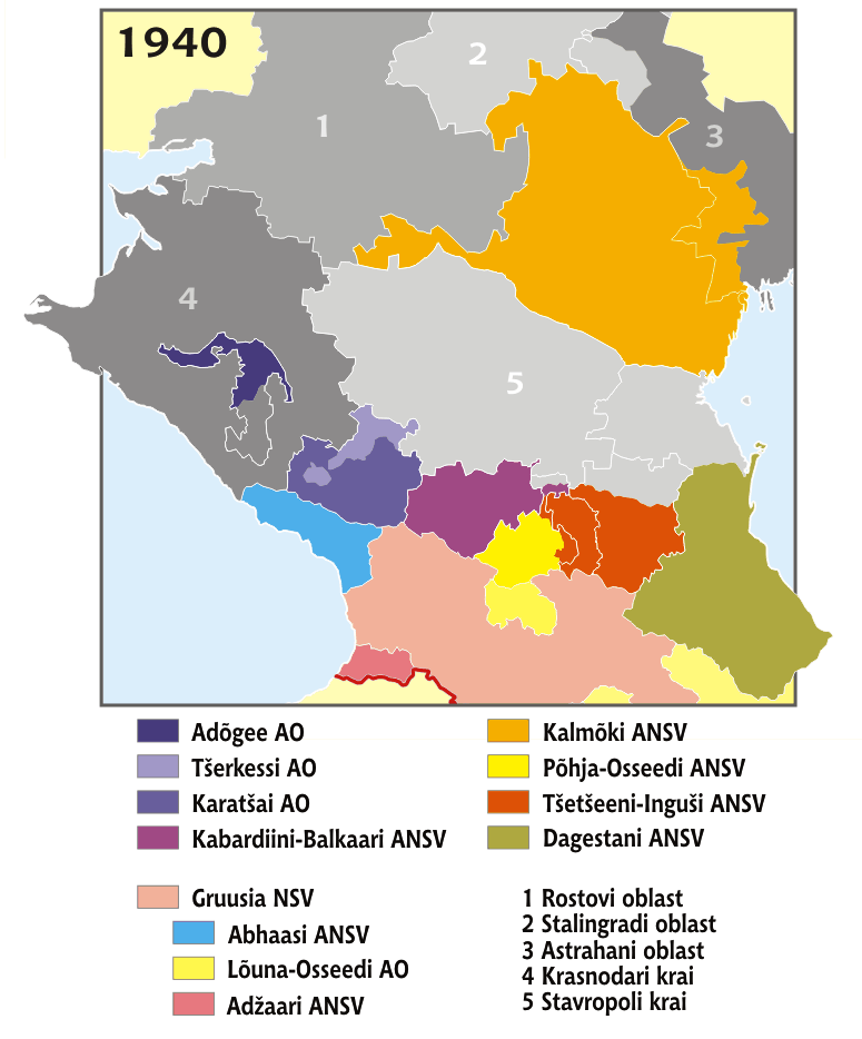 Administrative divisions of North Caucasus in 1940, white borders as of 2005, legend in Estonian.